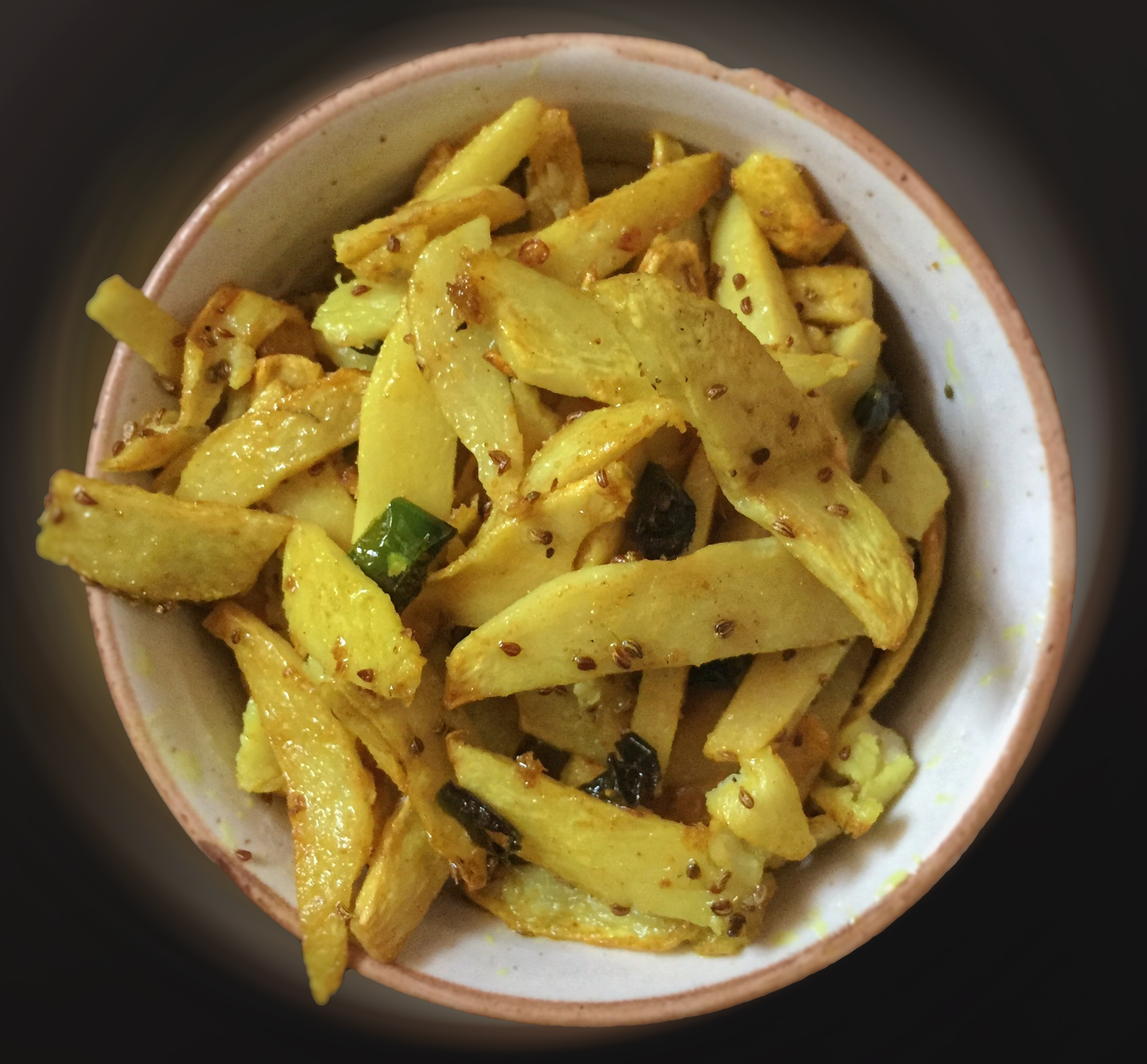 Saru bhoja/bhaja/bhaji is an Indian cooked food. It is prepared by pan-frying taro and by tempering it with carom and green chili pepper.